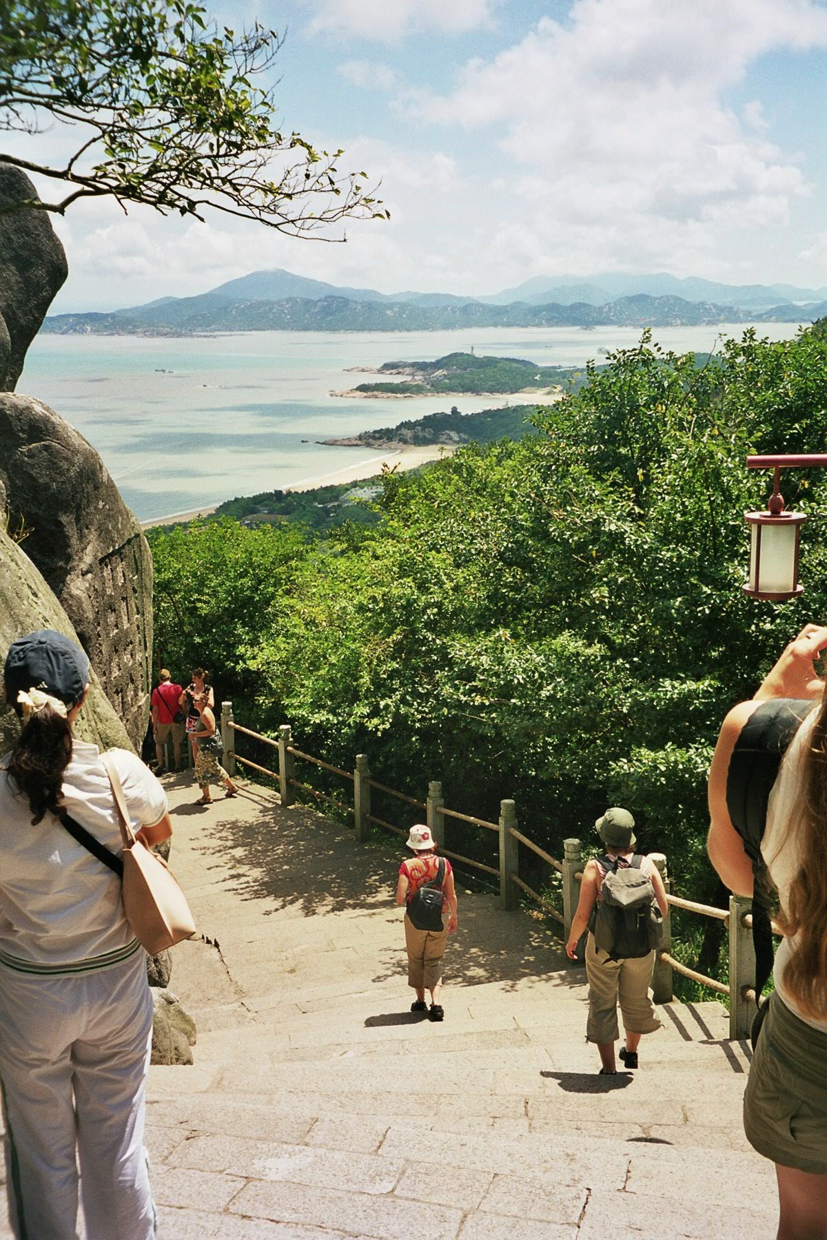 Landscape on island of Putuo Shan in China, September 2006.